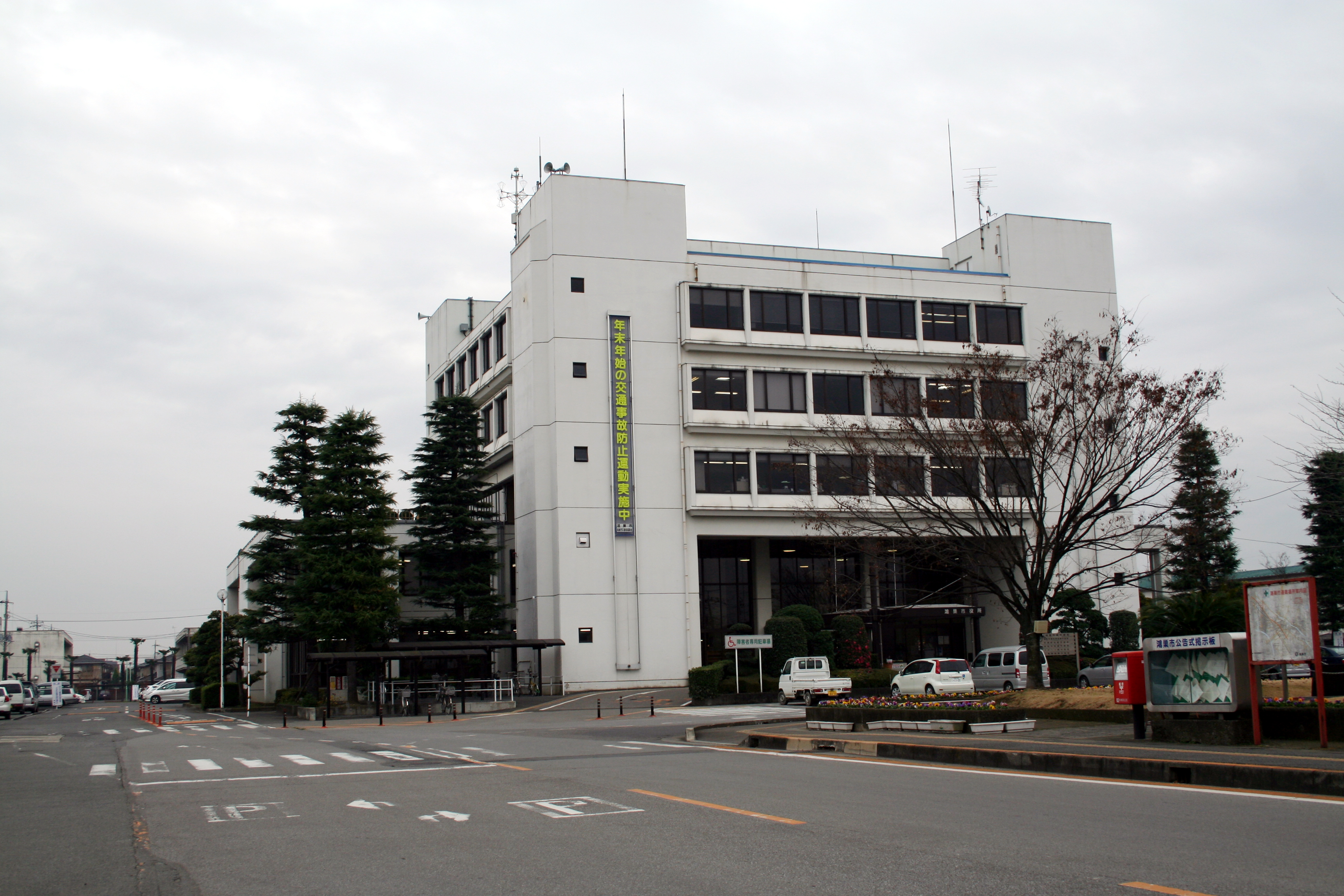 Japanese Konosu city office in Saitama prefecture.